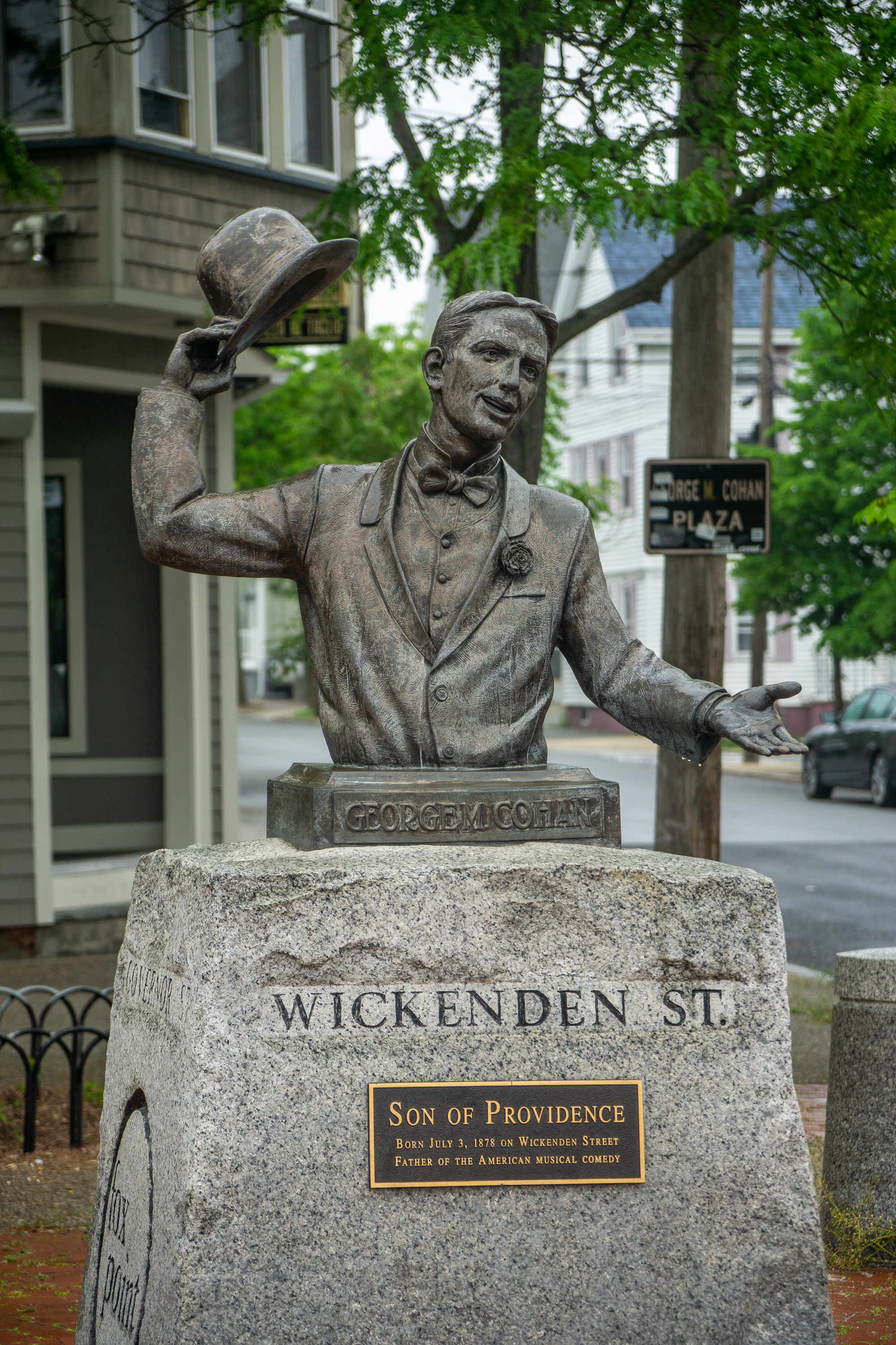 Son of Providence: George M. Cohan Statue in Providence, Rhode Island. Located on Wickenden Street in the Fox Point neighborhood.